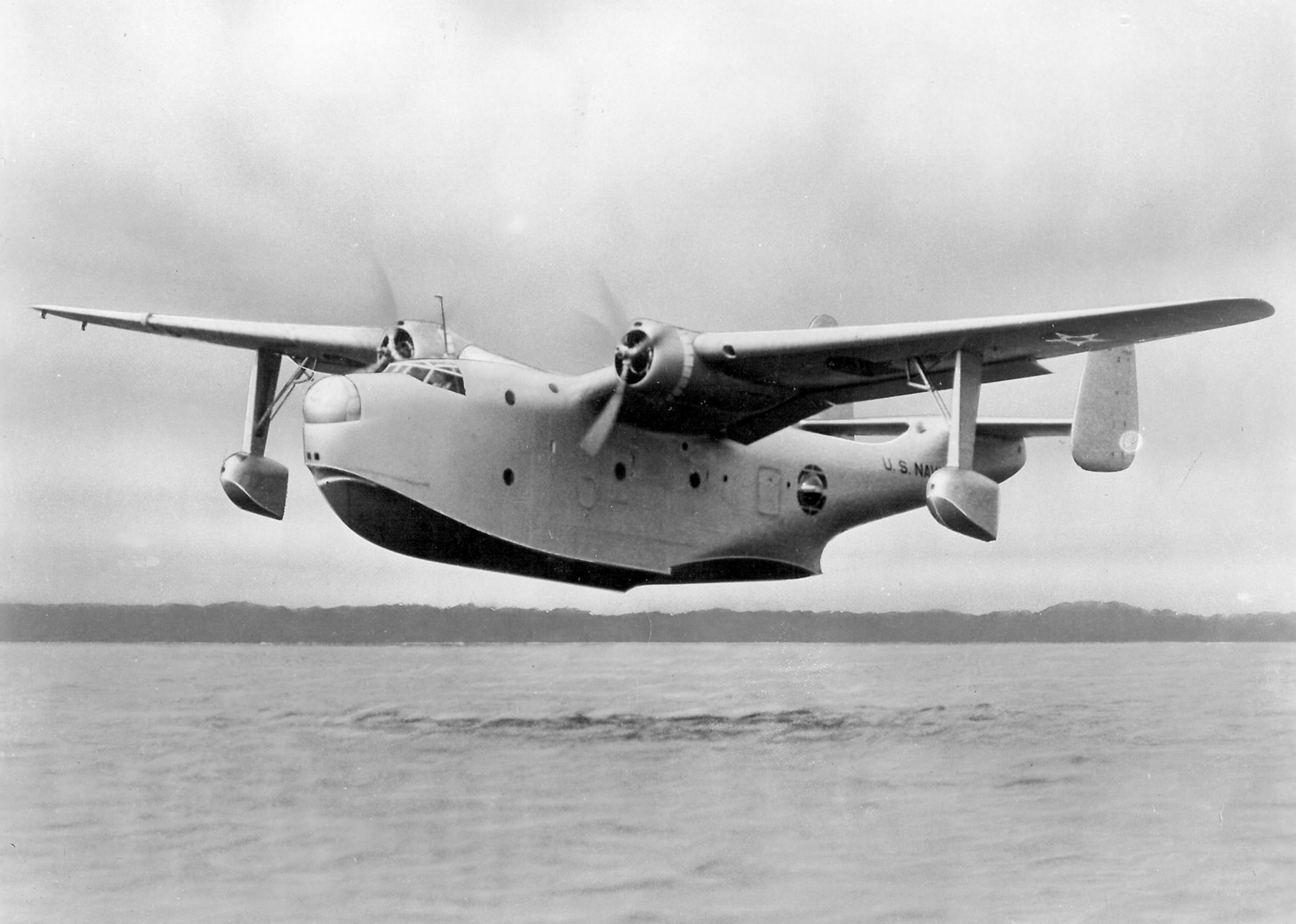 The U.S. Navy Martin XPBM-1 Mariner (BuNo 0796) in flight. This aircraft made its first flight on 18 February 1939, the type entering service in September 1940.